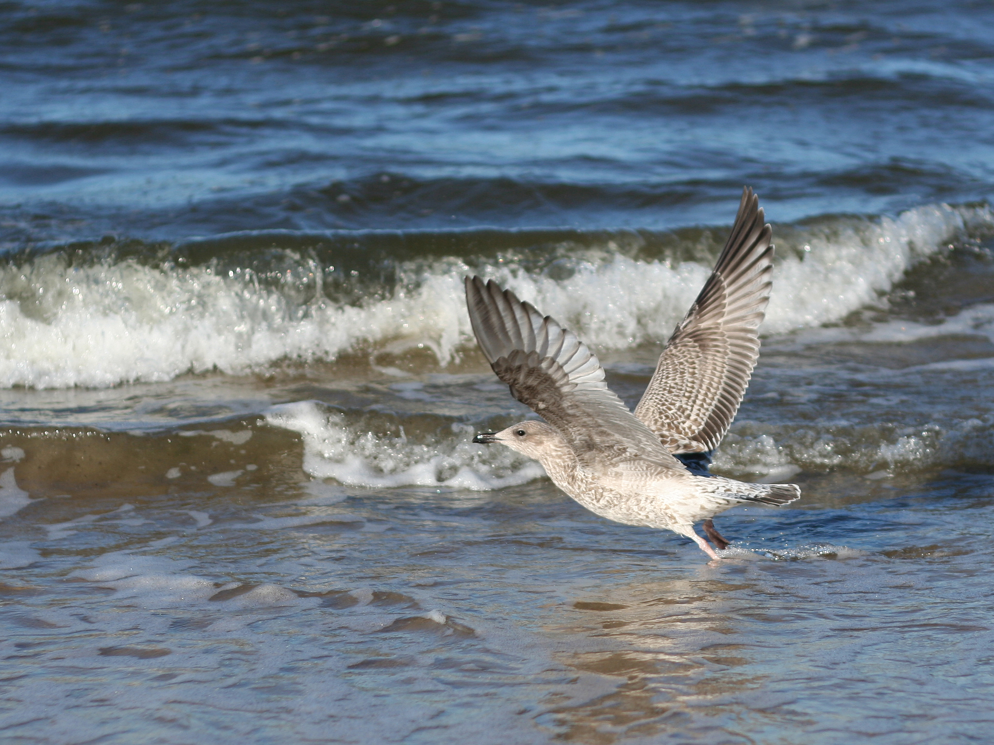 Juvenile Herring Gull (Larus argentatus) taking off from a shore near Świnoujście, Poland